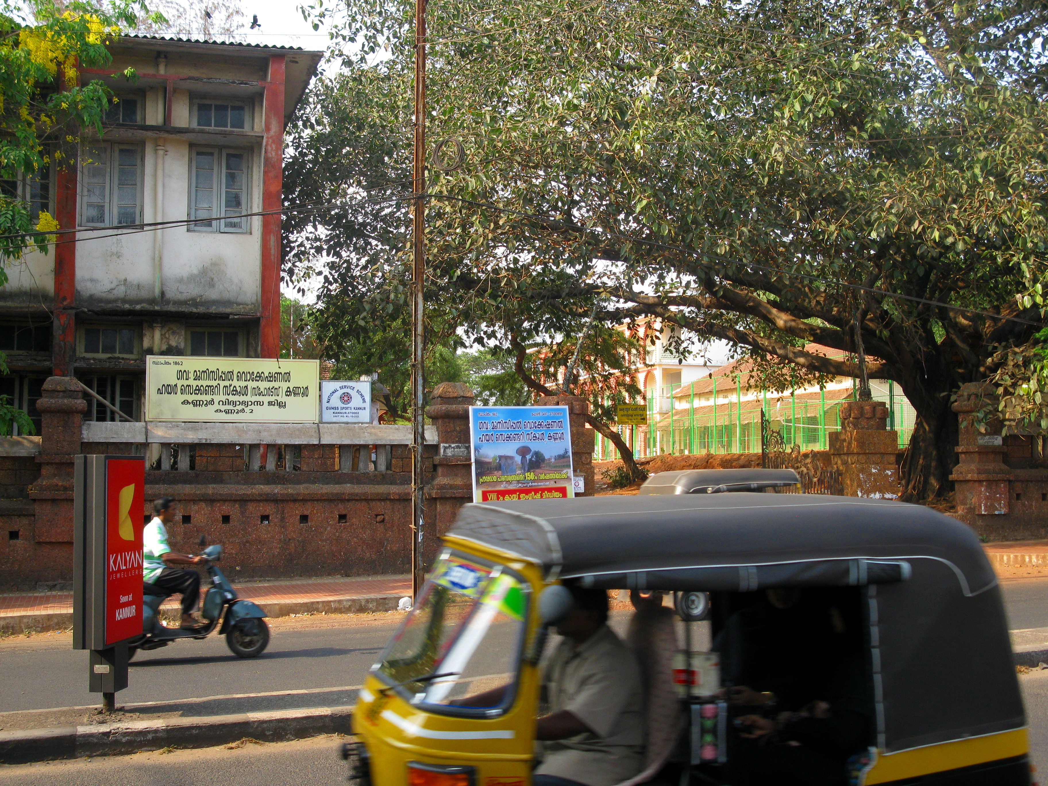 Muncipal School,Kannur